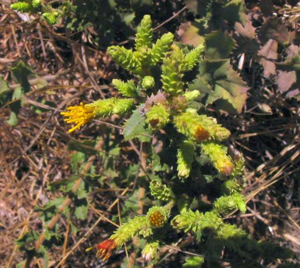 Hazardia squarrosa var. grindelioides at Circle X Ranch: Grotto trail, Santa Monica Mountains National Recreation Area, California, USA.